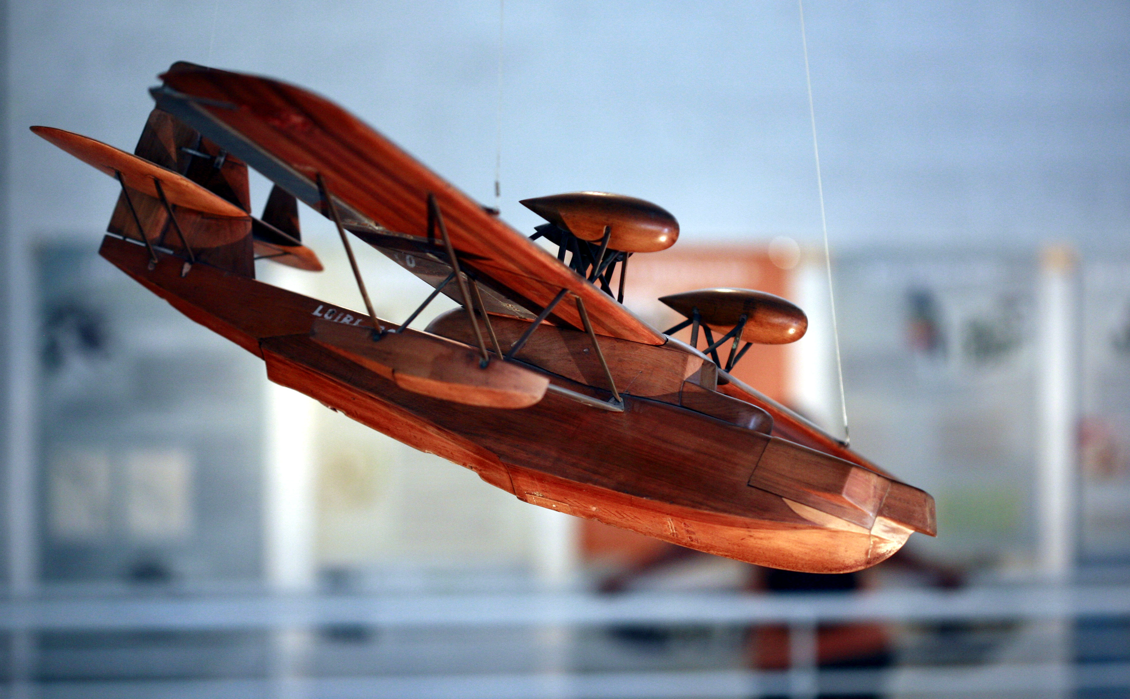 Wind tunnel model of a Loire 70 seaplane. On display at the Écomusée de Saint-Nazaire.